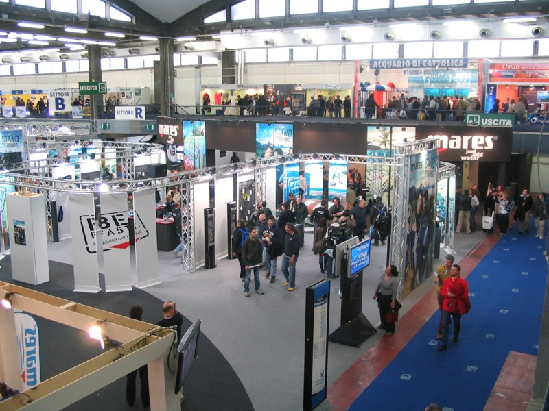 The 2006 Dive Show in Genova Italy